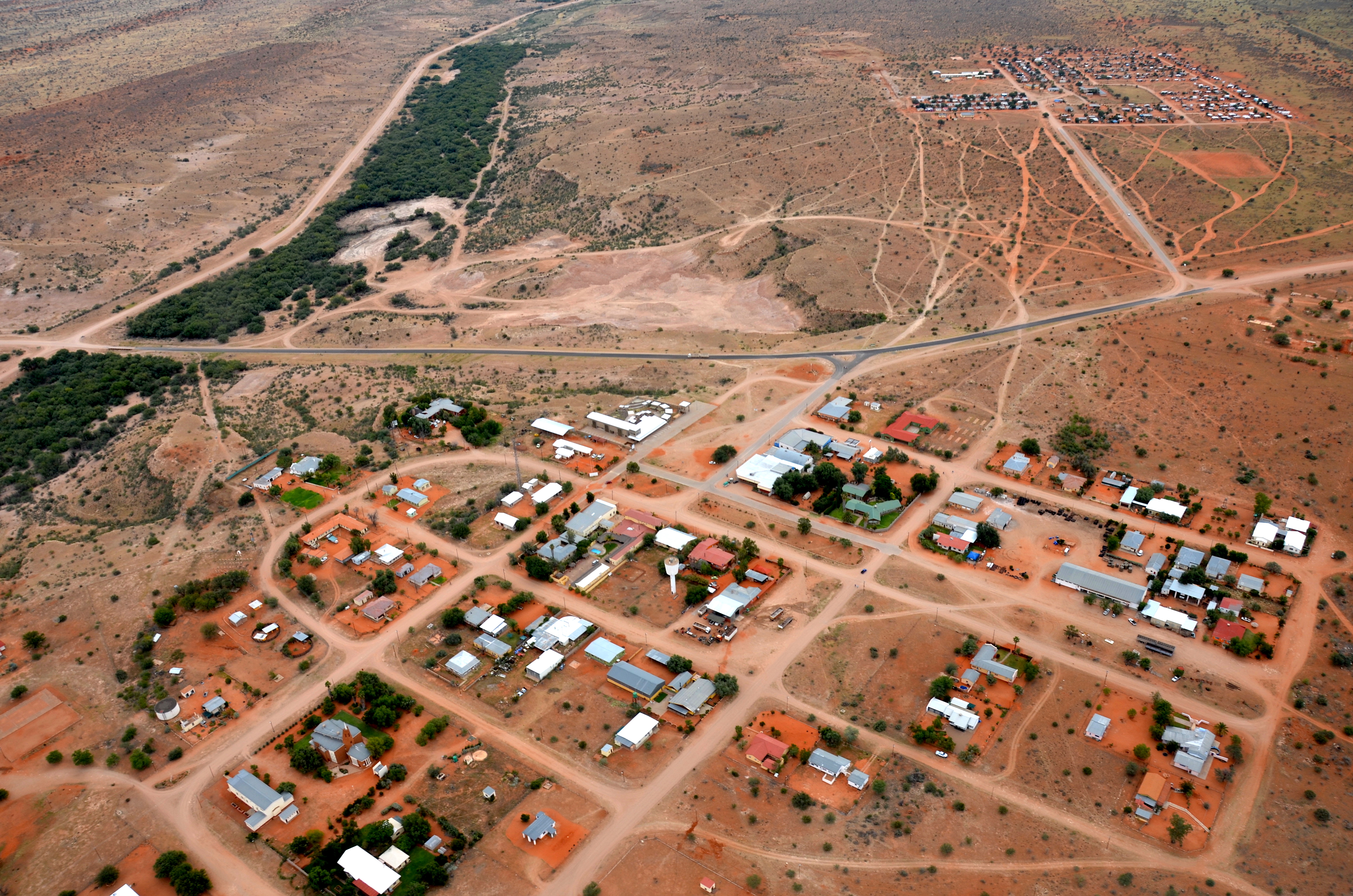 Gochas from bird's eye view (2017)